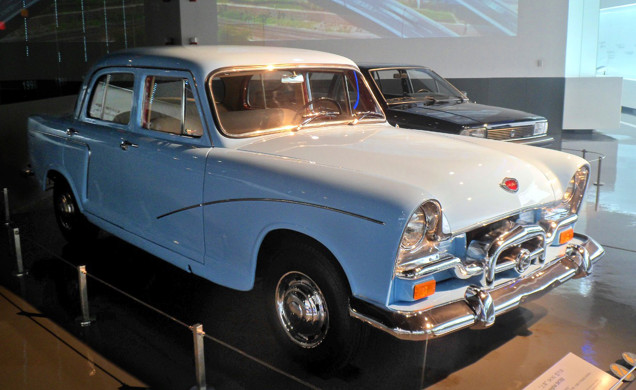 Shanghai SH760 photographed at the Shanghai Automobile Museum, Anting, Shanghai municipality, China.